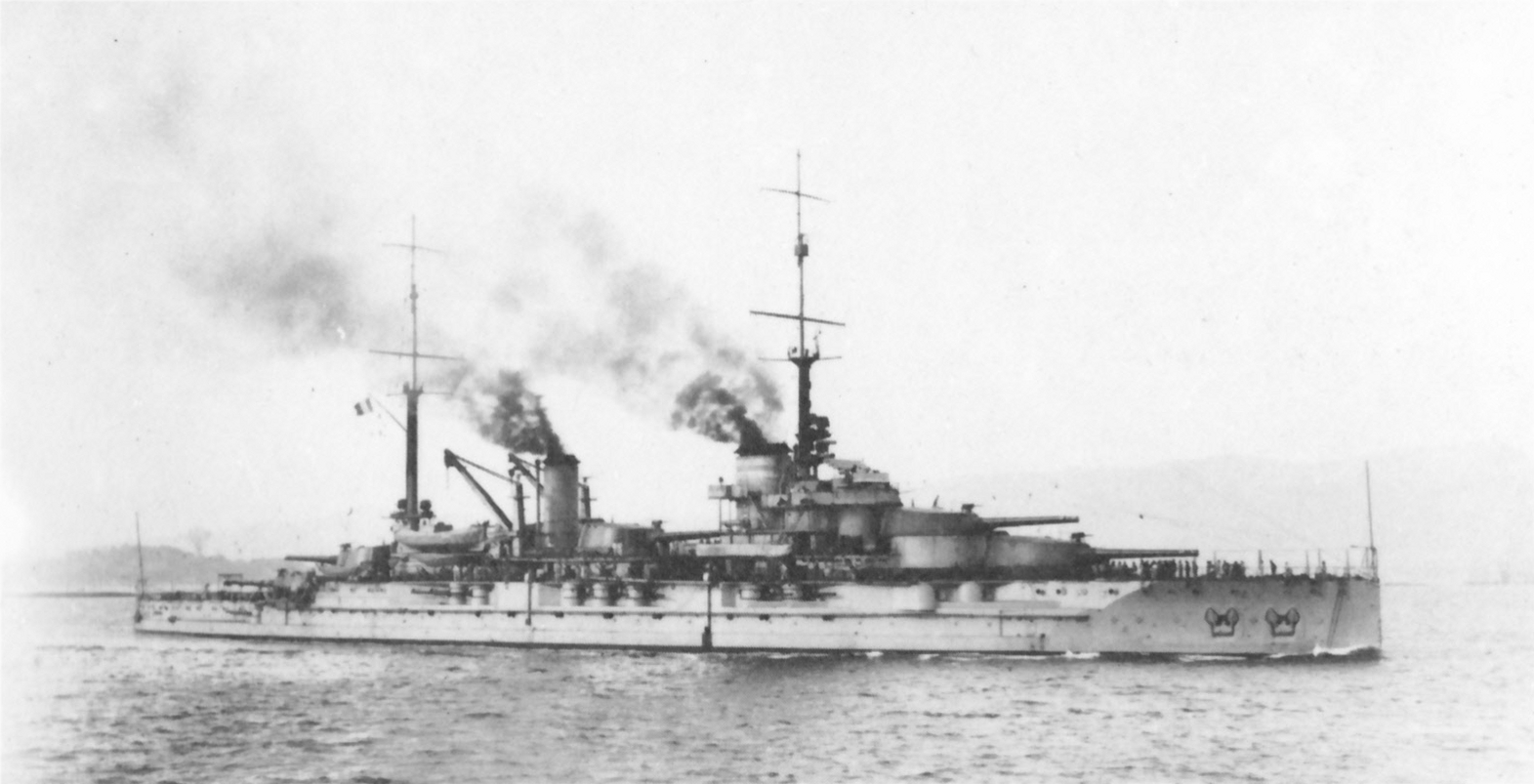 The French battleship Provence, before its reconstruction. In Francis Dousset: Le Navire de Guerre Francais, page 42, it is stated that this photo was taken just at the end of World War I.